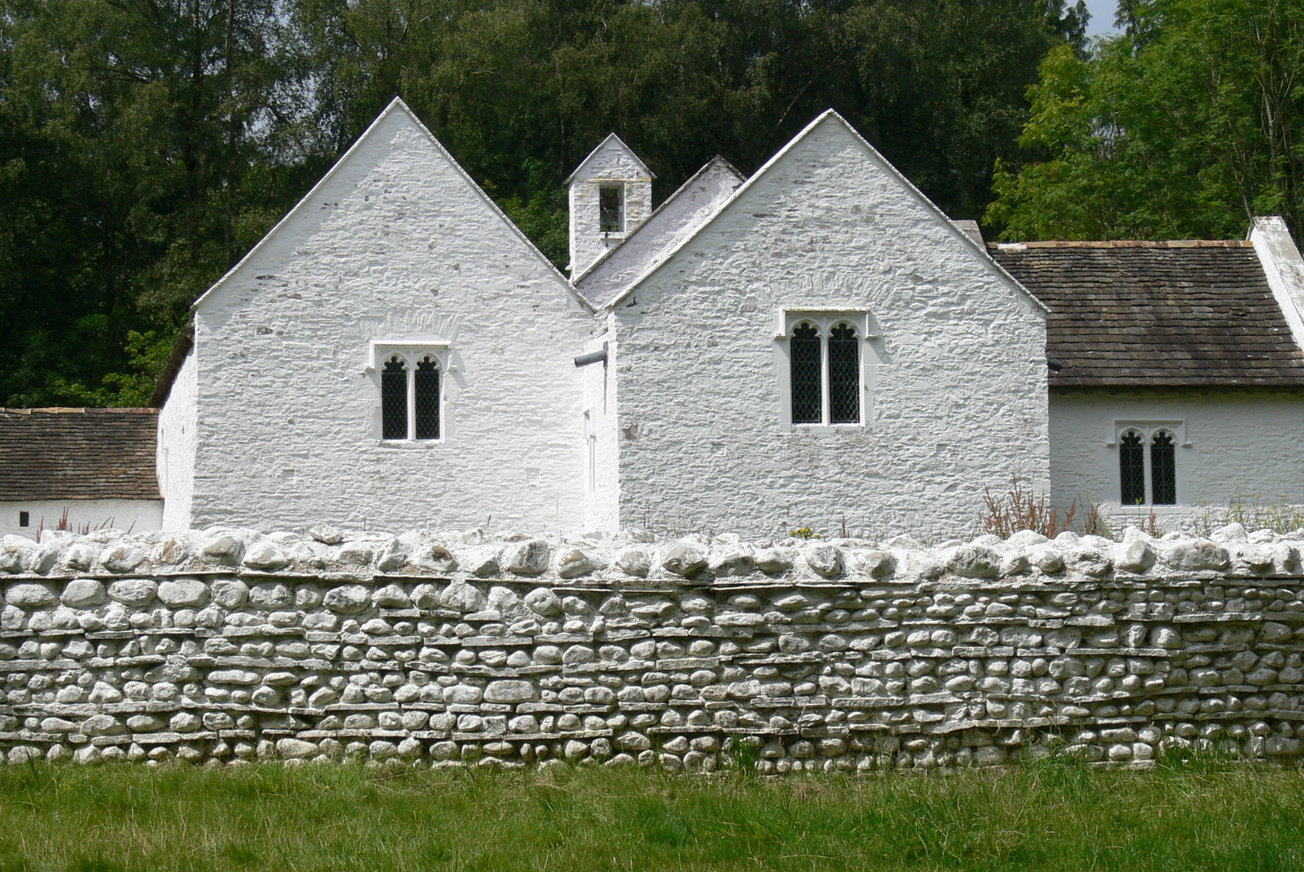 St.Fagans National History Museum ( Cardiff ). Saint Teilo church.